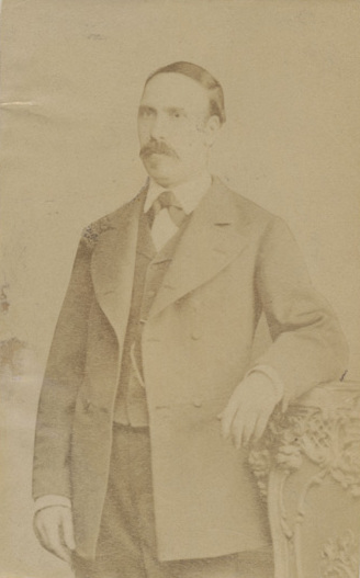 Bulgarian teacher, playwright and journalist Dobri Voynikov